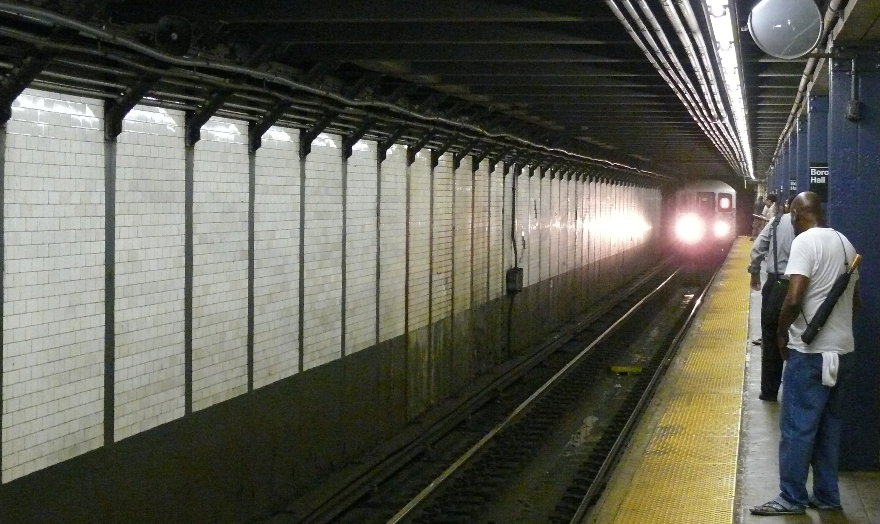 No 3 train arriving in Borough hall station. Court Street – Borough Hall is a New York City Subway station complex shared by the IRT Broadway – Seventh Avenue Line, the IRT Eastern Parkway Line, and the BMT Fourth Avenue Line. The station is named Borough Hall on the IRT lines and Court Street on the BMT. The 3 Seventh Avenue Express is a rapid transit service of the New York City Subway. It is colored red on station signs and the official subway map. The 3 service operates at all times. Normal service operates between Harlem – 148th Street in Harlem, Manhattan and New Lots Avenue in East New York, Brooklyn, making express stops in Manhattan and local stops in Brooklyn.